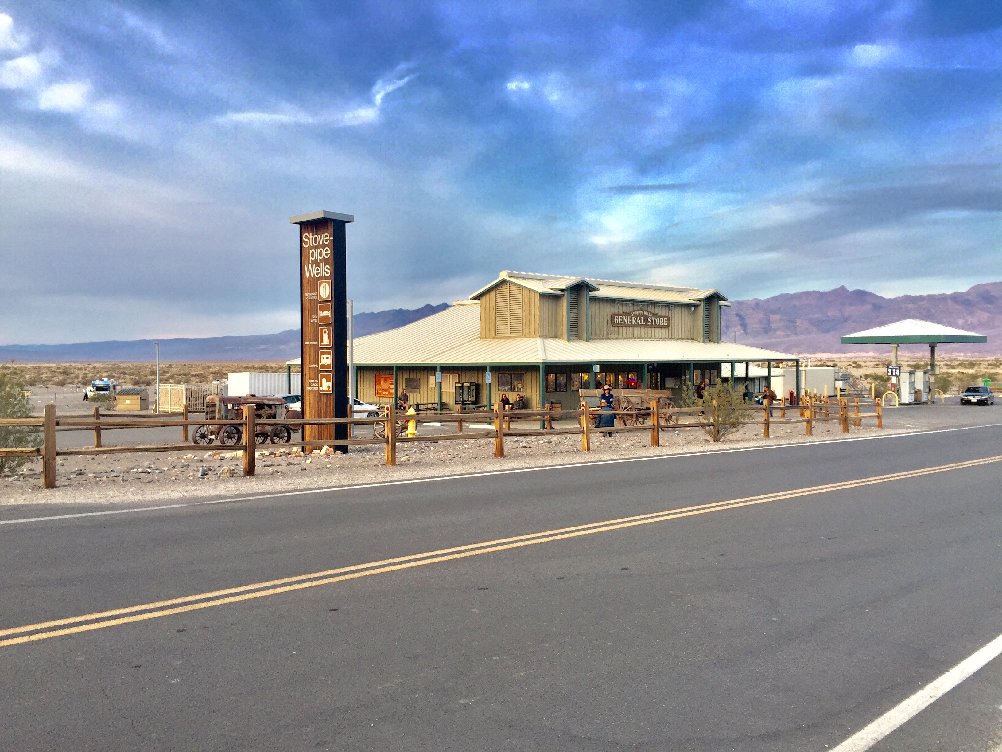 The Stovepipe Wells Village is located several miles north of Furnace Creek, is the smaller of the two major tourist service hubs in Death Valley National Park. Unlike the architecture found at Furnace Creek or at other tourist facilities and historic structures in the park, the structures at Stovepipe Wells are more rustic in style, and made of wood, quite distinct from the Spanish Revival style displayed by most of the other structures. The settlement’s origin can be traced to 1906, when temporary tents were constructed to serve as a way-station for tourists and travelers between the city of Rhyolite, Nevada and Skidoo, California, two ghost towns, and former mining boom towns, located in or near Death Valley. The current structures were constructed starting in 1925, and use local stone in their construction, with motifs and decorative elements being present in the retaining wall in front of the building. Today, the original structures from the 1920s remain, with many newer structures, including a general store, gas station, and additional lodging being located in close proximity to the structure.